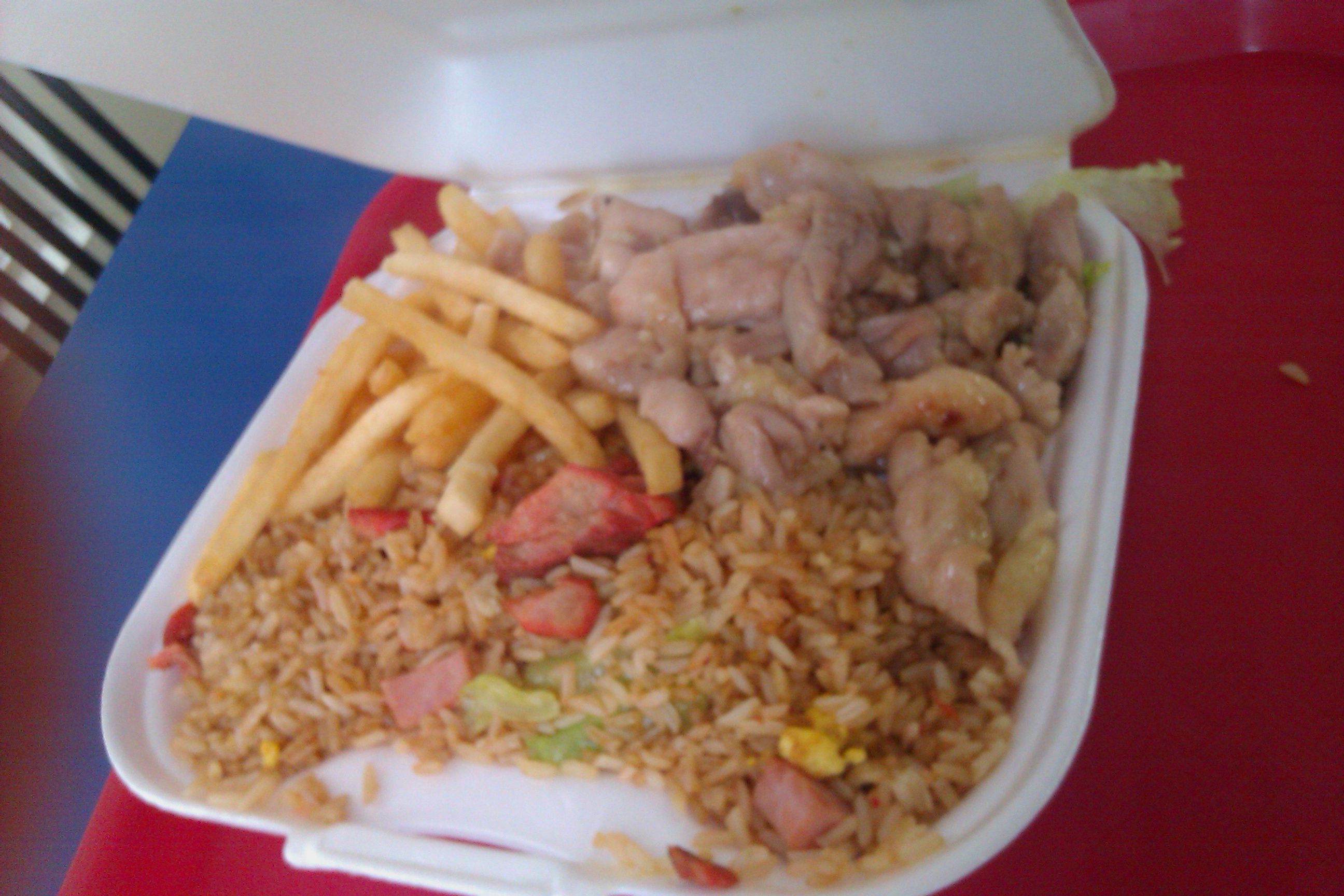 Puerto Rican Chinese Pollo al ajillo